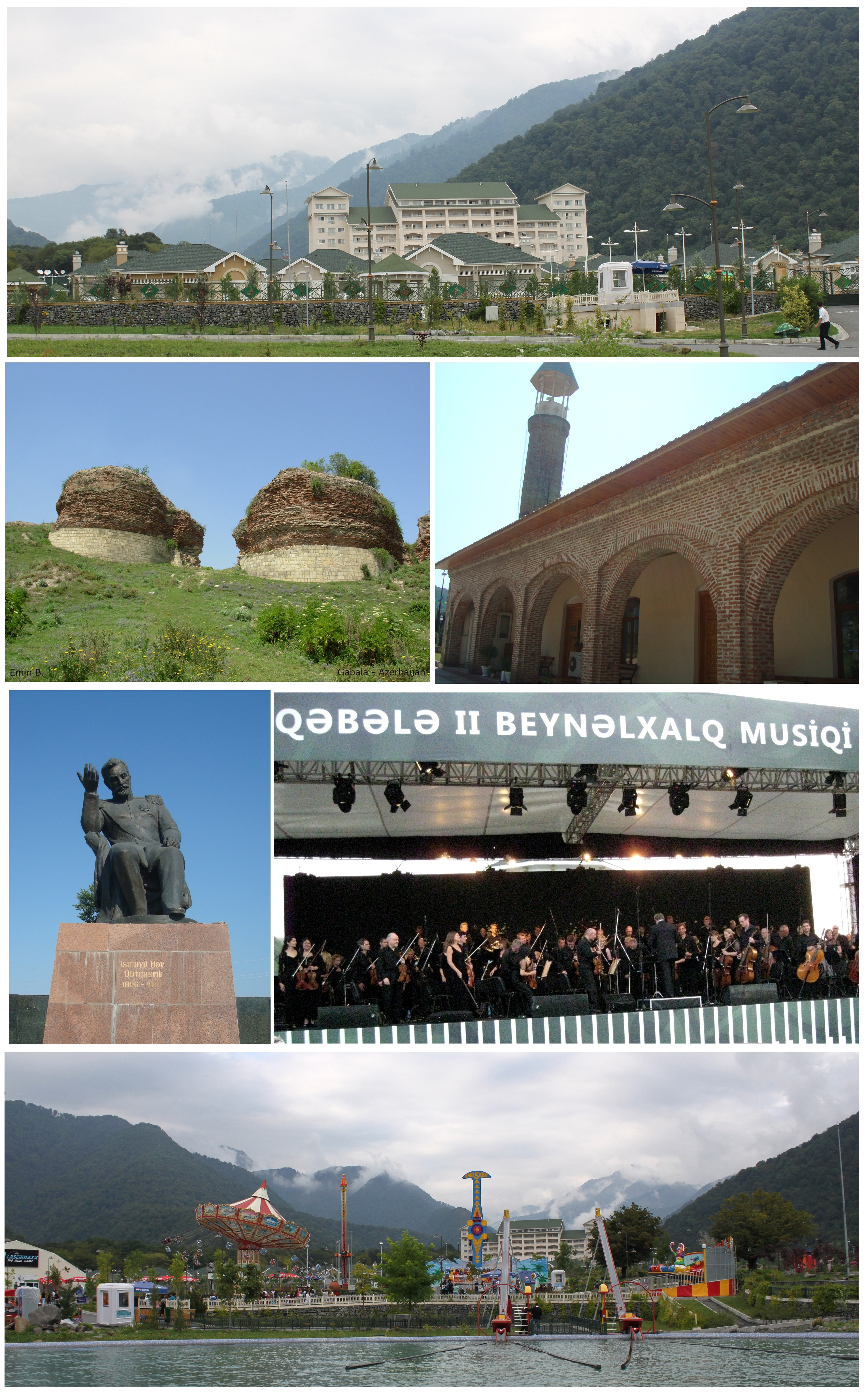 Views of Gabala, Azerbaijan